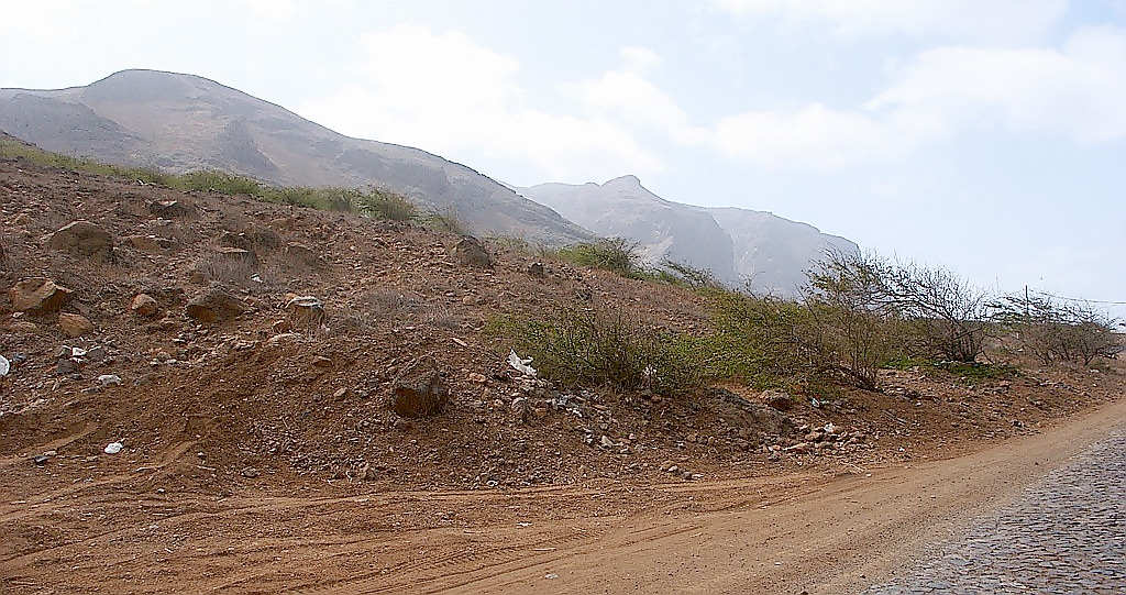 Inside lands, island of São Nicolau, Cape Verde.